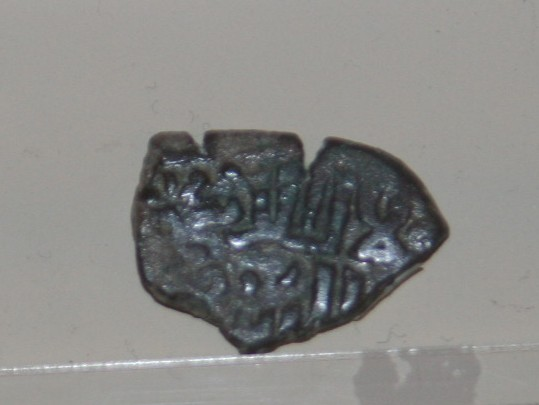 Copper dirham of Jalaladdin Kharezmshah